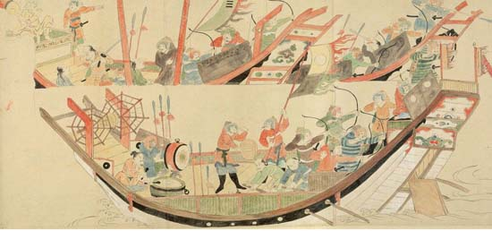 Mongol warships from «Scrolls of the Mongol invasions»